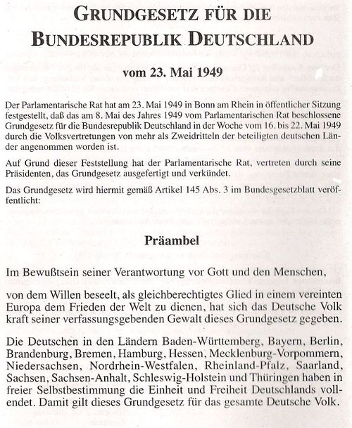 Preamble of the German Grundgesetz (Basic Constitutional Law) as amended by the Einigungsvertrag (Unification Treaty) 1990